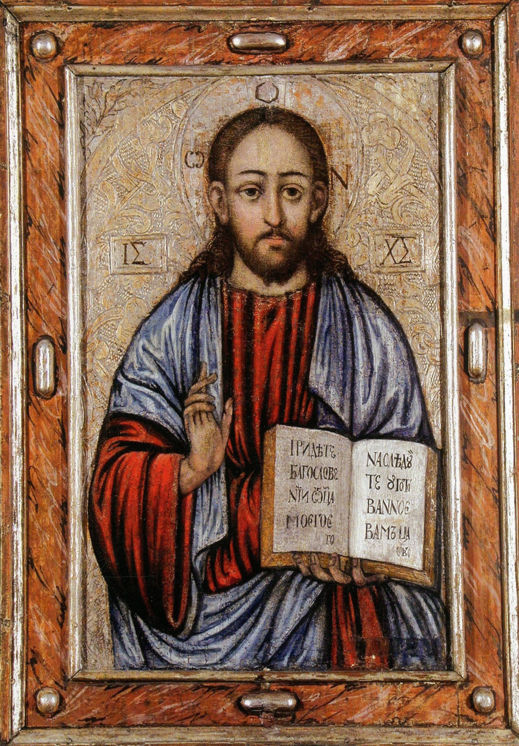 CHRIST PANTOCRATOR. 17th с. Wood, tempera. Church of the 40 martyres, Kastyki, Vilieyka district, Minsk region. Restoration - P. Zhurbey.